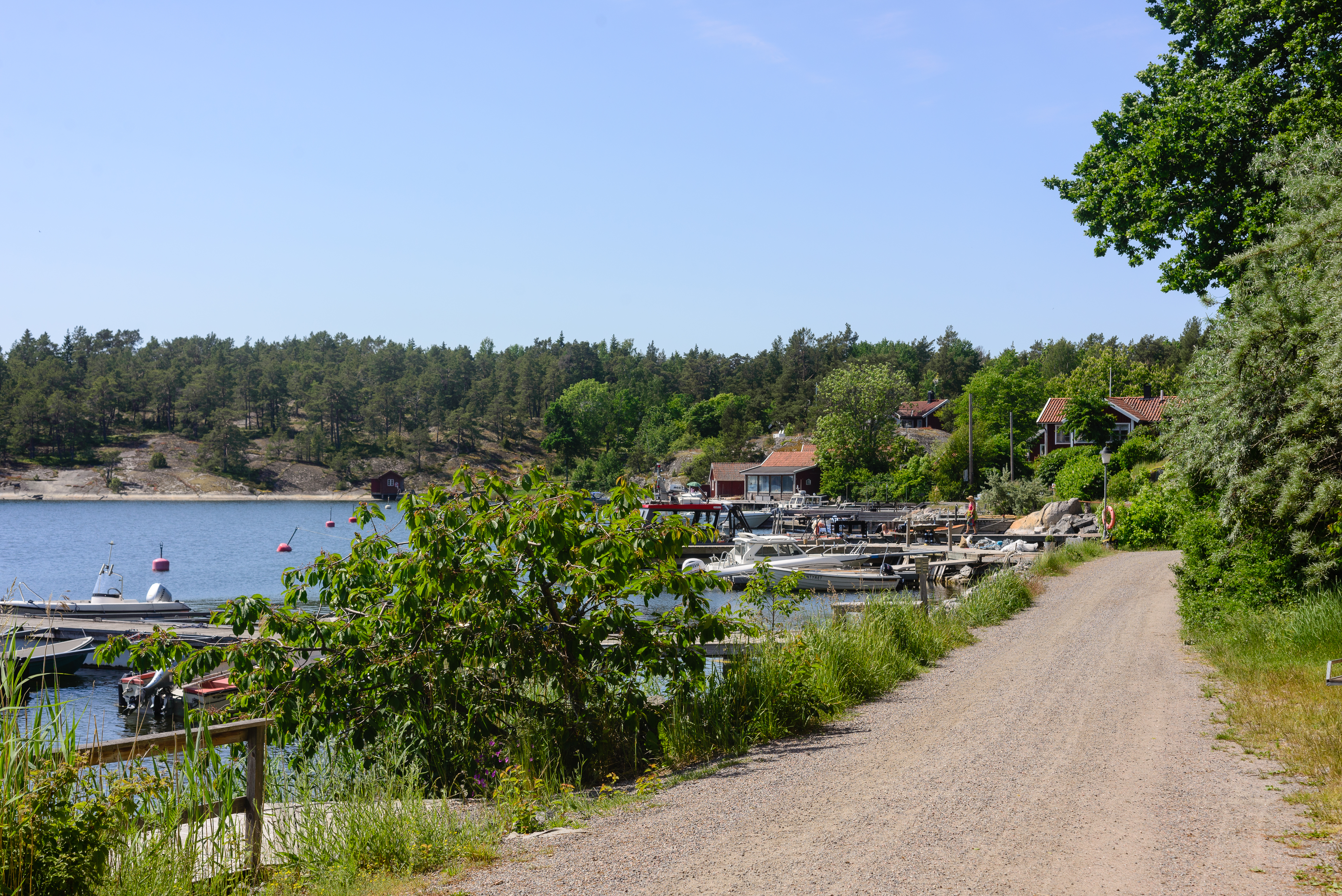 Södermöja, Stockholm archipelago.